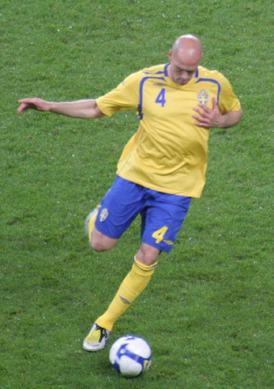 Daniel Majstorovic of FC Basel. Uploaded per request at Wikipedia:Images for upload.